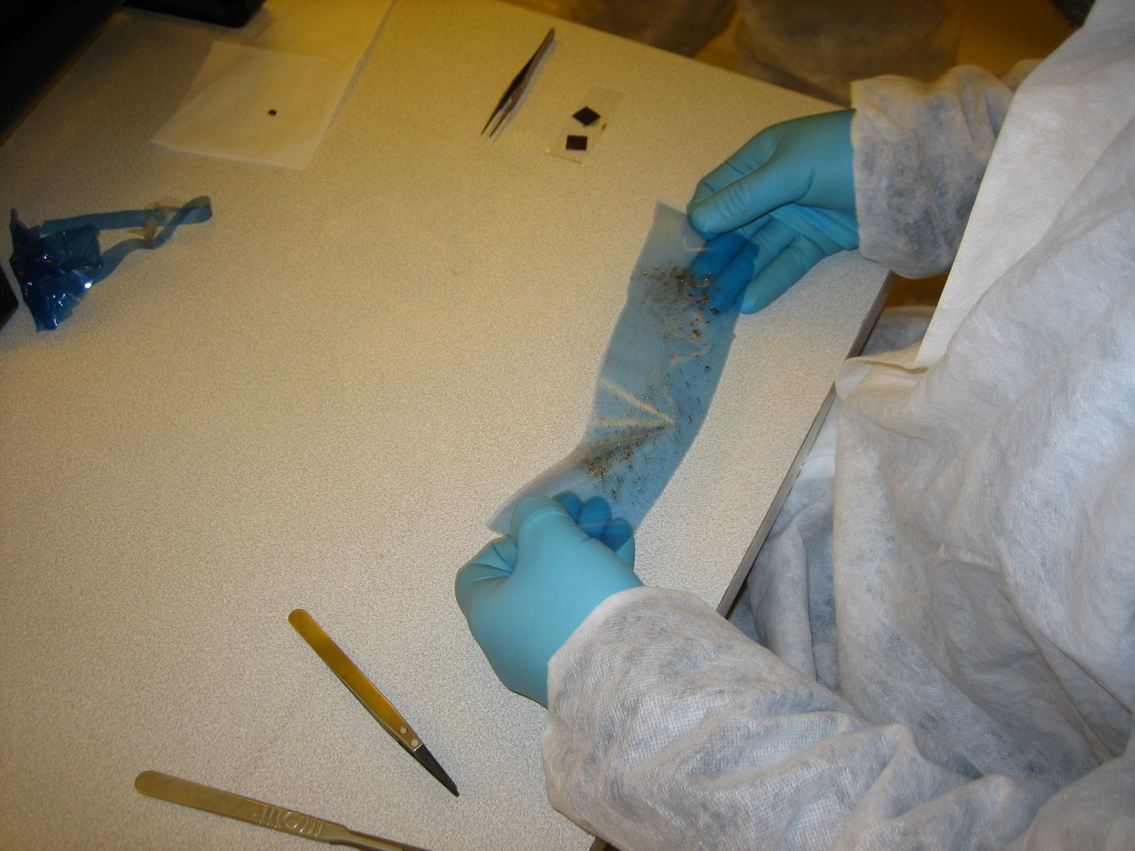 Graphite and graphene on an adhesive tape